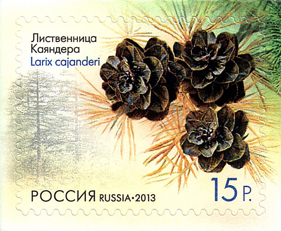 The flora of Russia. Cones of conifer trees and shrubs. Cajander’s larch (Larix cajanderi) [1].The stamp of Russia, 15.00 Rubles, 4 March 2012, PTC Marka Catalogue No 1684, Michel No 1916. Self-adhesive paper. Offset printing. Perforation (stamping): 11½:11½. Size of the stamp: 36.5×29 mm. Print run: 110,000.